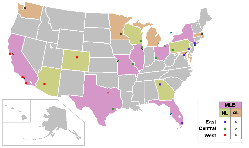 Major League Baseball team locations.